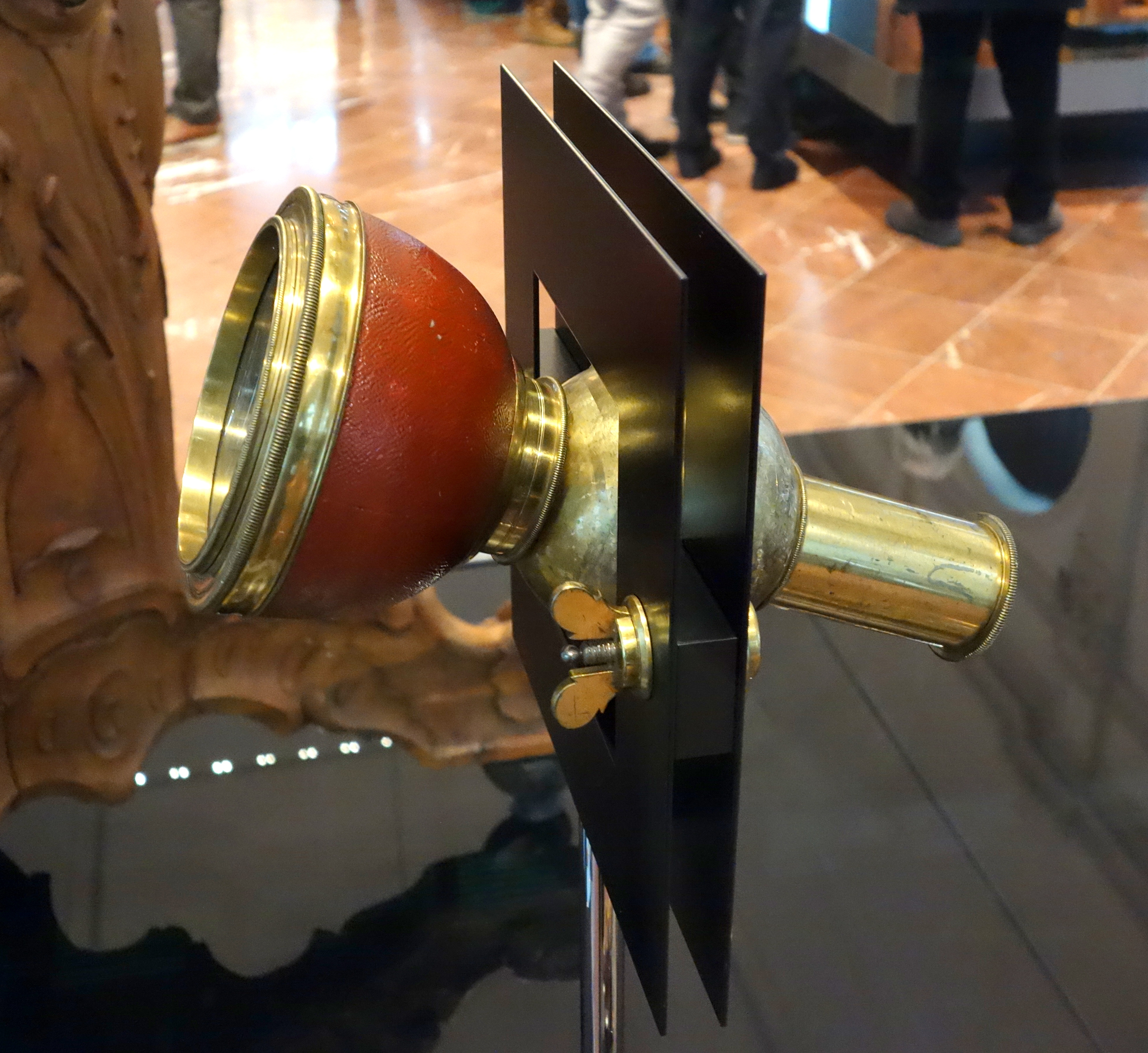 Exhibit in the Mathematisch-Physikalischer Salon (Zwinger), Dresden, Germany. This artwork is old enough so that it is in the public domain.